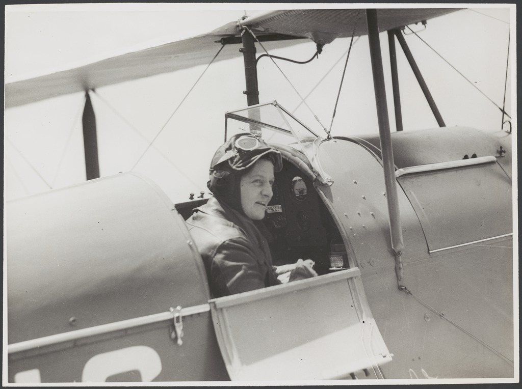 Sydney Morning Herald Persistent URL .au/nla.pic-vn4917365